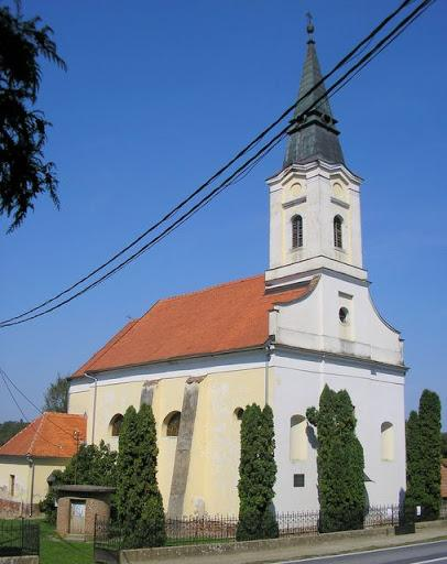 Church in Croatia